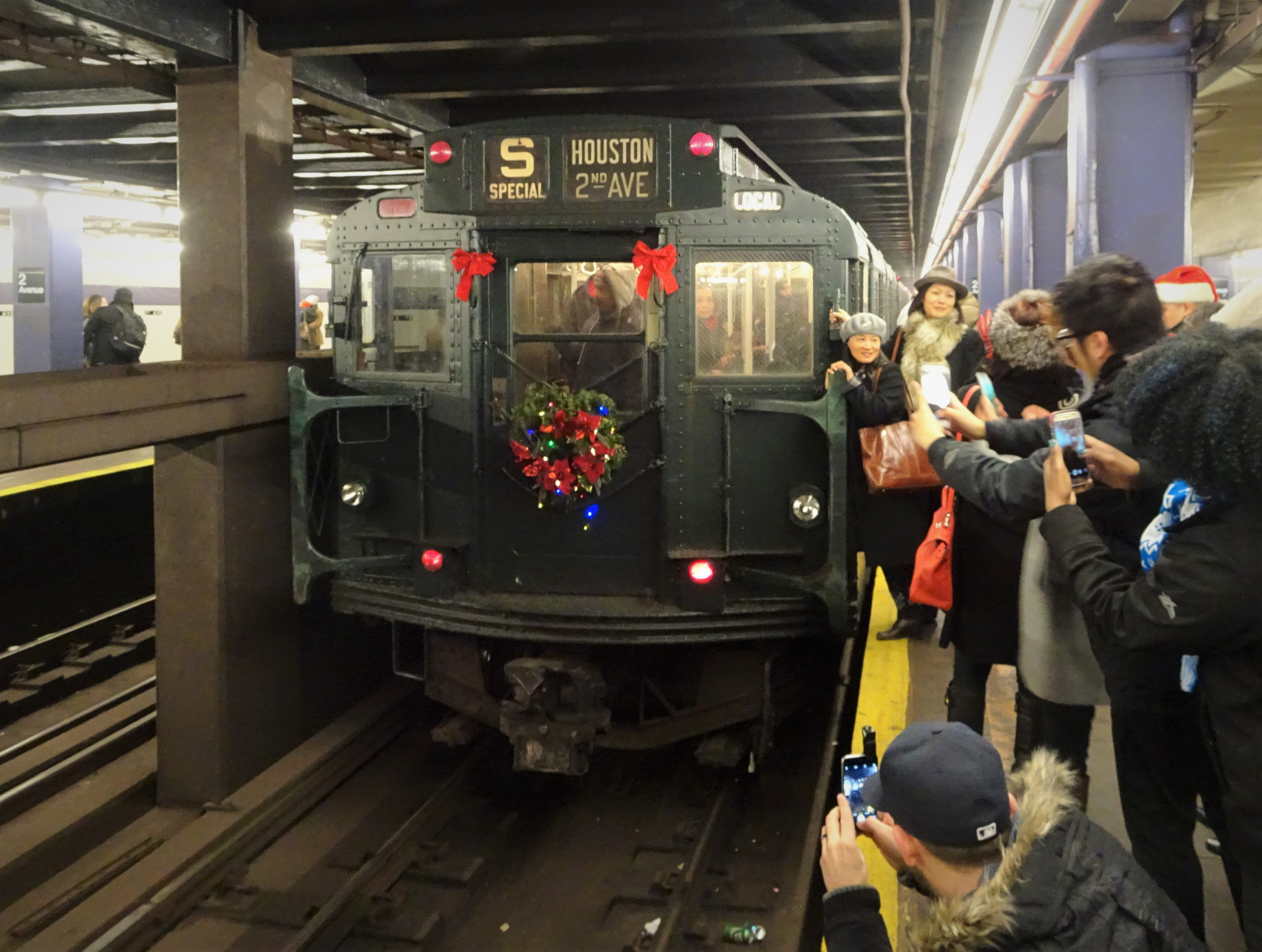 Nostalgia train recently arrived.